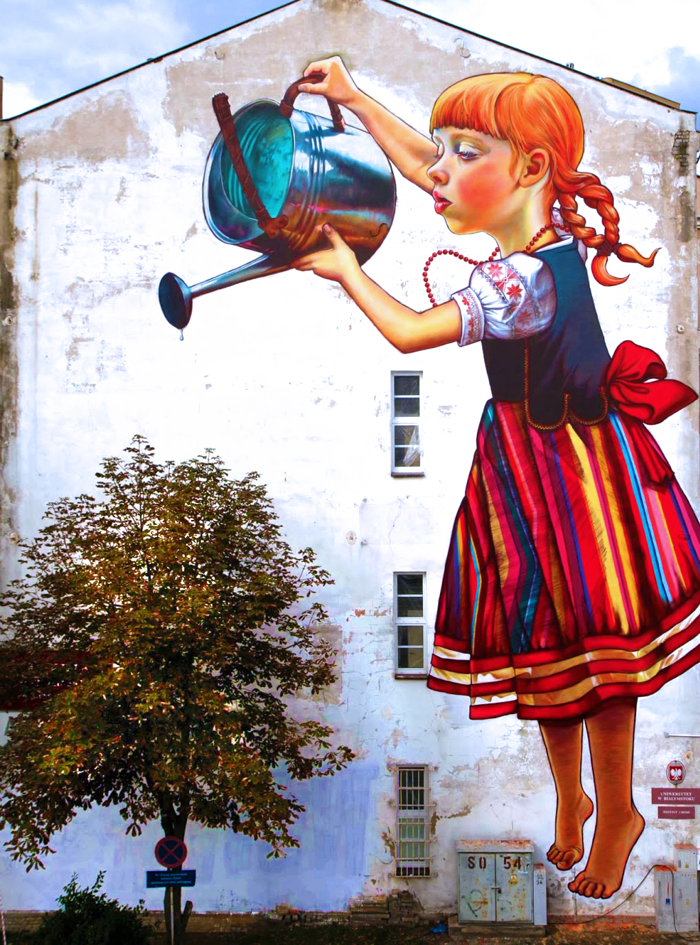 Mural in Bialystock by Natalia Rak representing a girl watering a real tree.